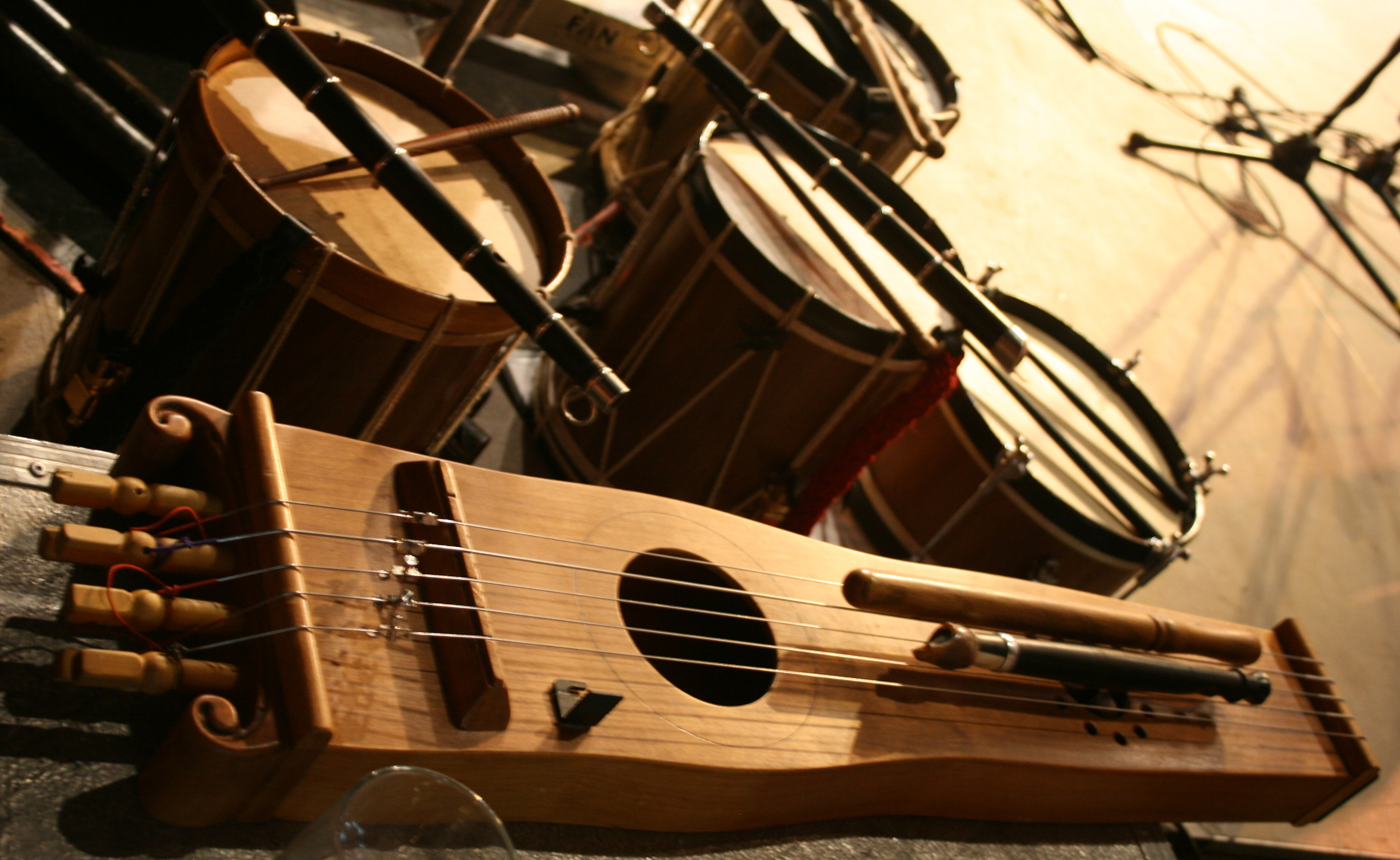 Txun Txun, chordophone musical instrument from Basque Country